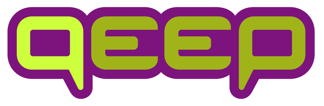 Qeep Mobile Social Network Logo